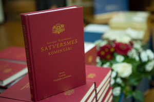 Satversmes komentāru atklāšanas pasākums 2014.gada 30.novembrī